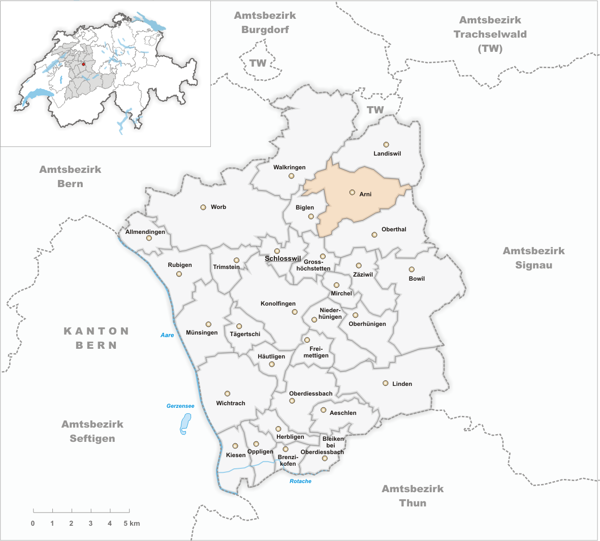 Municipality Arni